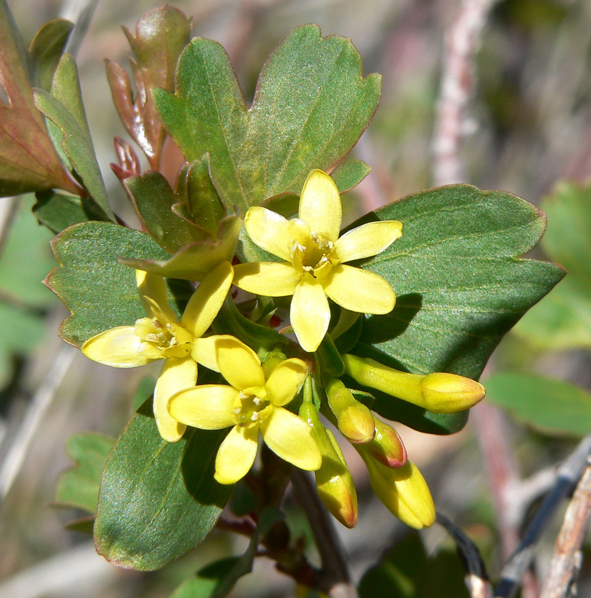 Ribes aureum var. aureum — next to road at Willow Spring of Willow Creek, Cold Creek area, Spring Mountains, southern Nevada (elev. about 1800 m).